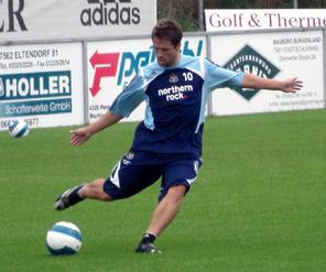 Michael Owen (English footballer) training with Newcastle United. Cropped from original source.